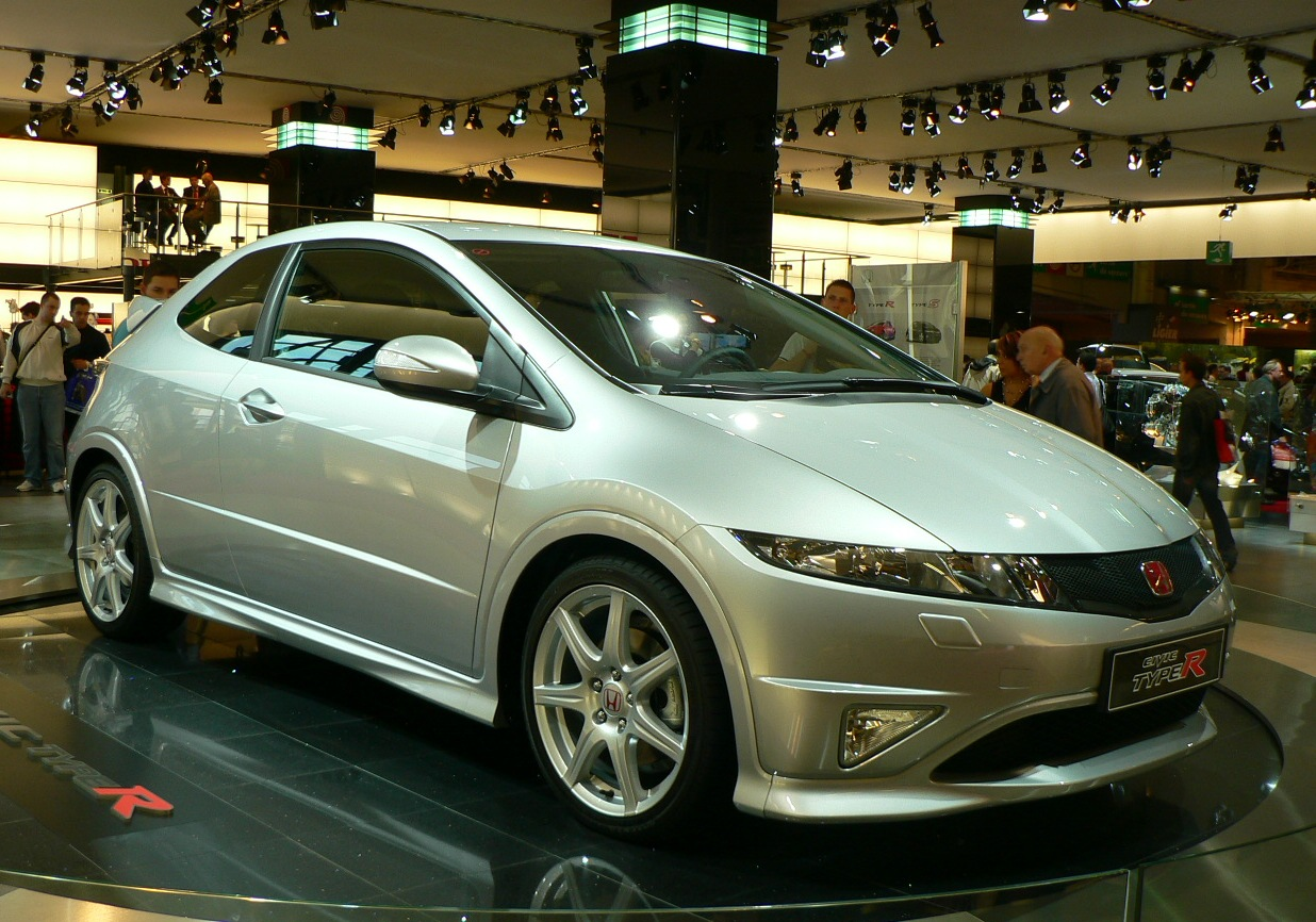 Honda Civic type R at the 2006 Paris Motor Show